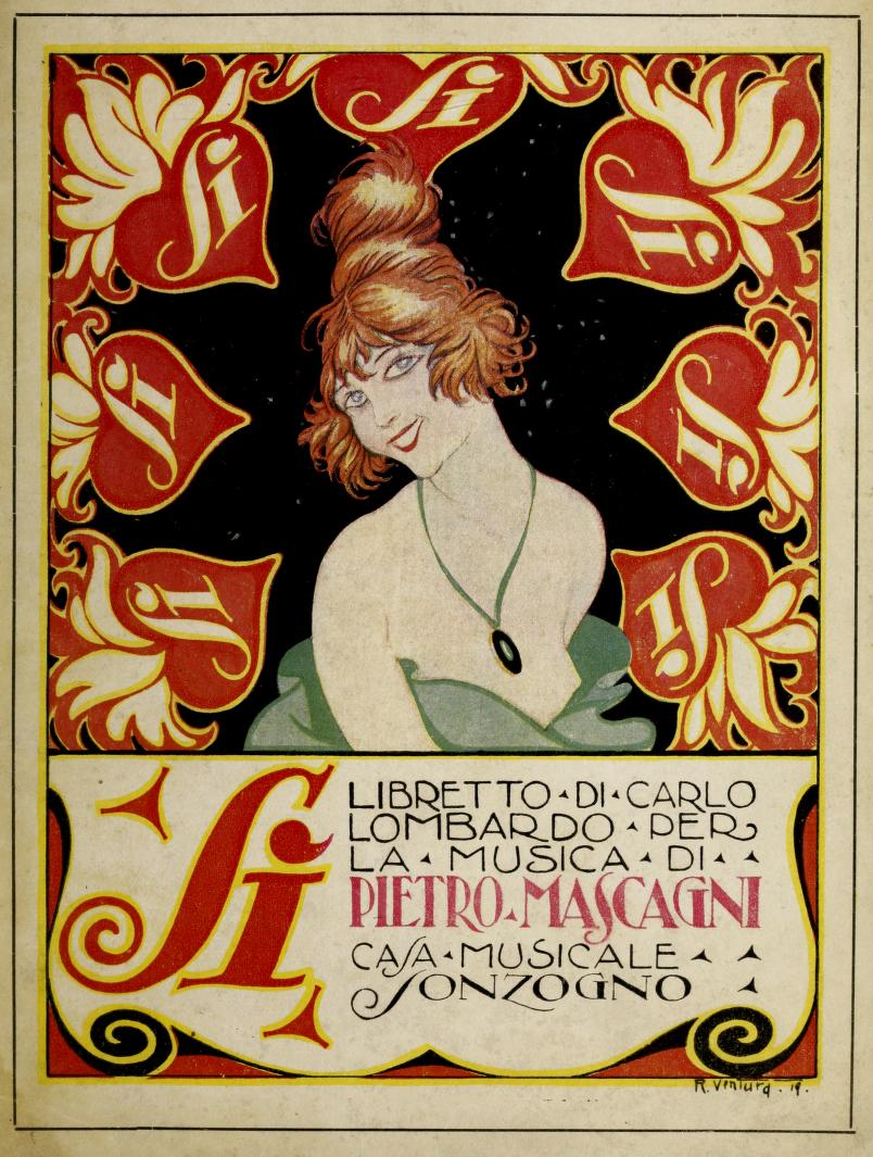 Cover of the libretto for Pietro Mascagni's operetta Sì published by Casa Musicale Sonzogno in 1919, the year the operetta premiered